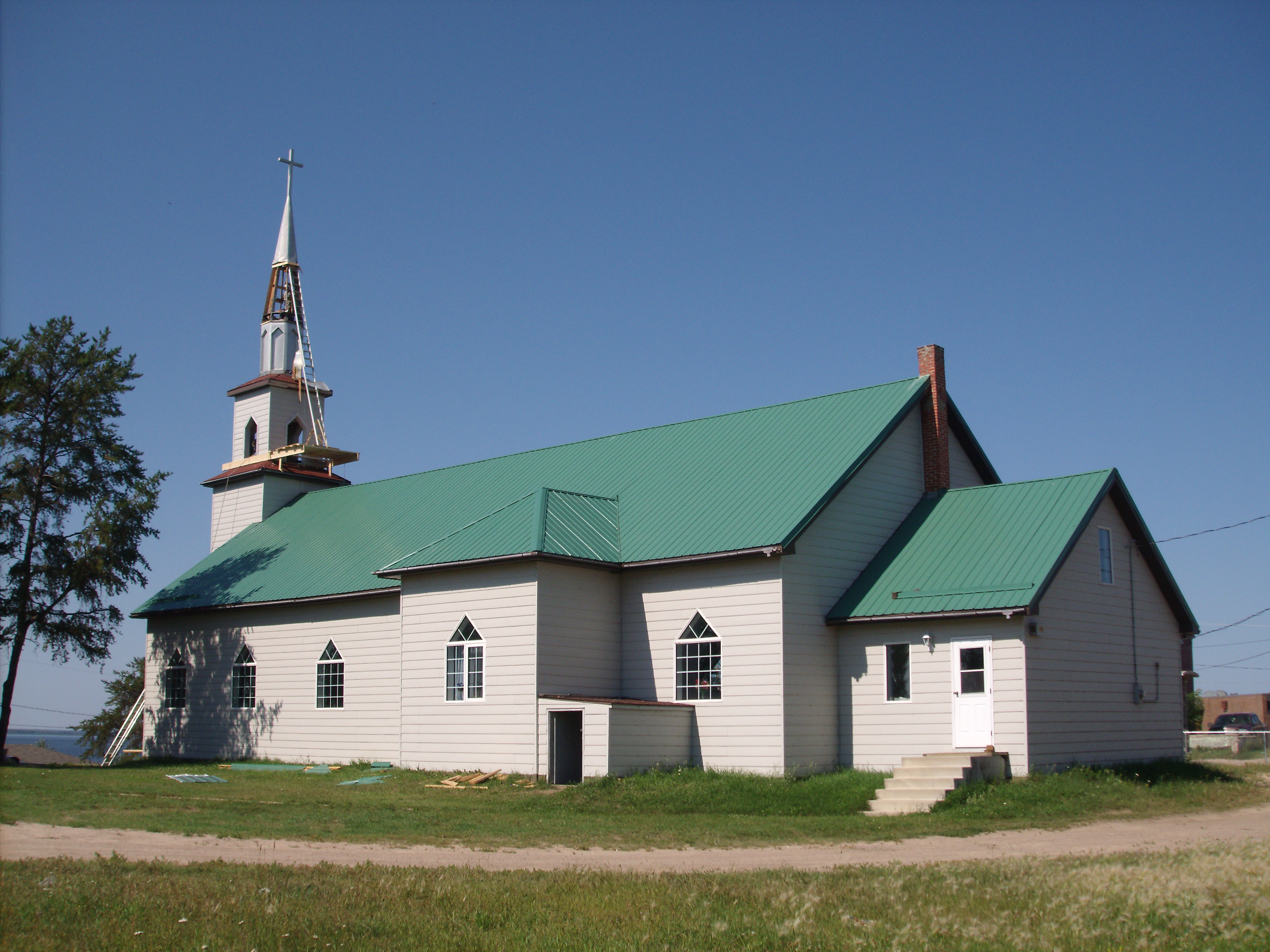 La Loche Catholic Church built in 1953